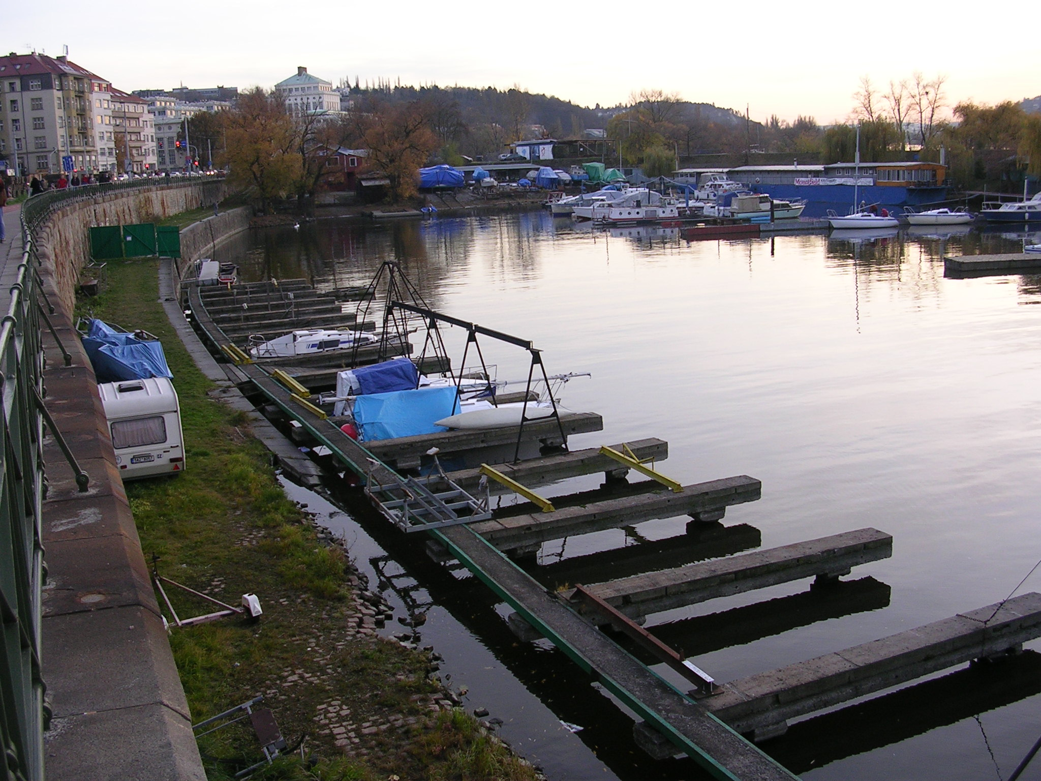 Podolí, Prague.